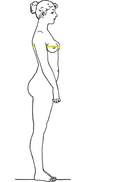 measuring full bust measurement.